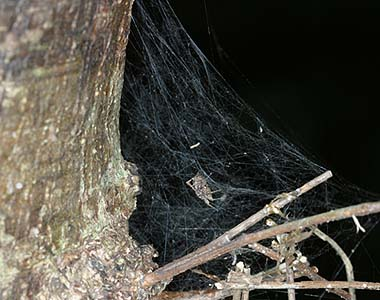 female Portia fimbriata in its web, from Okinawa.